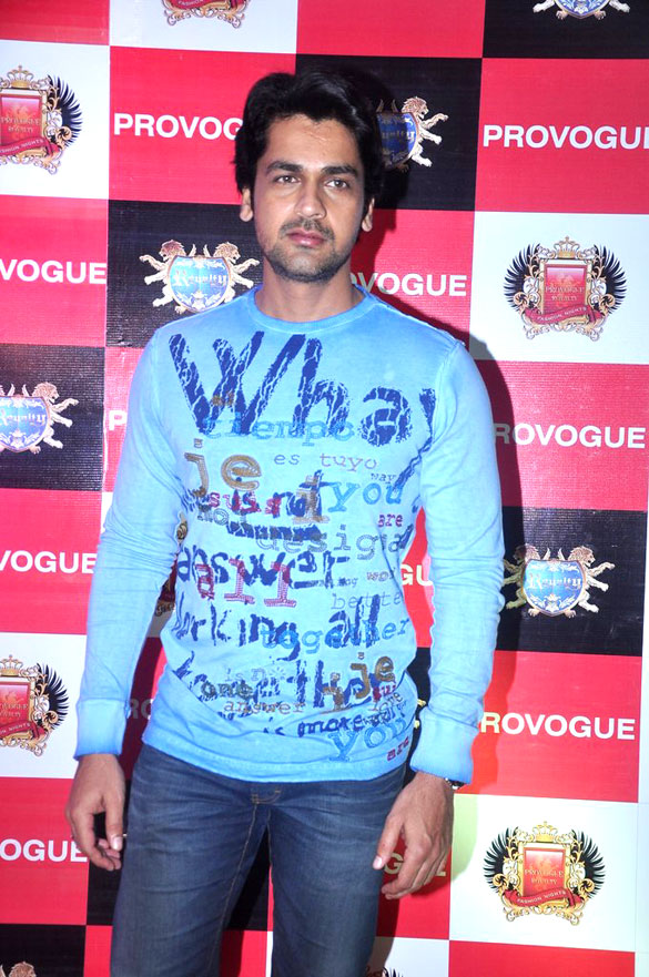 Arjan Bajwa provogue